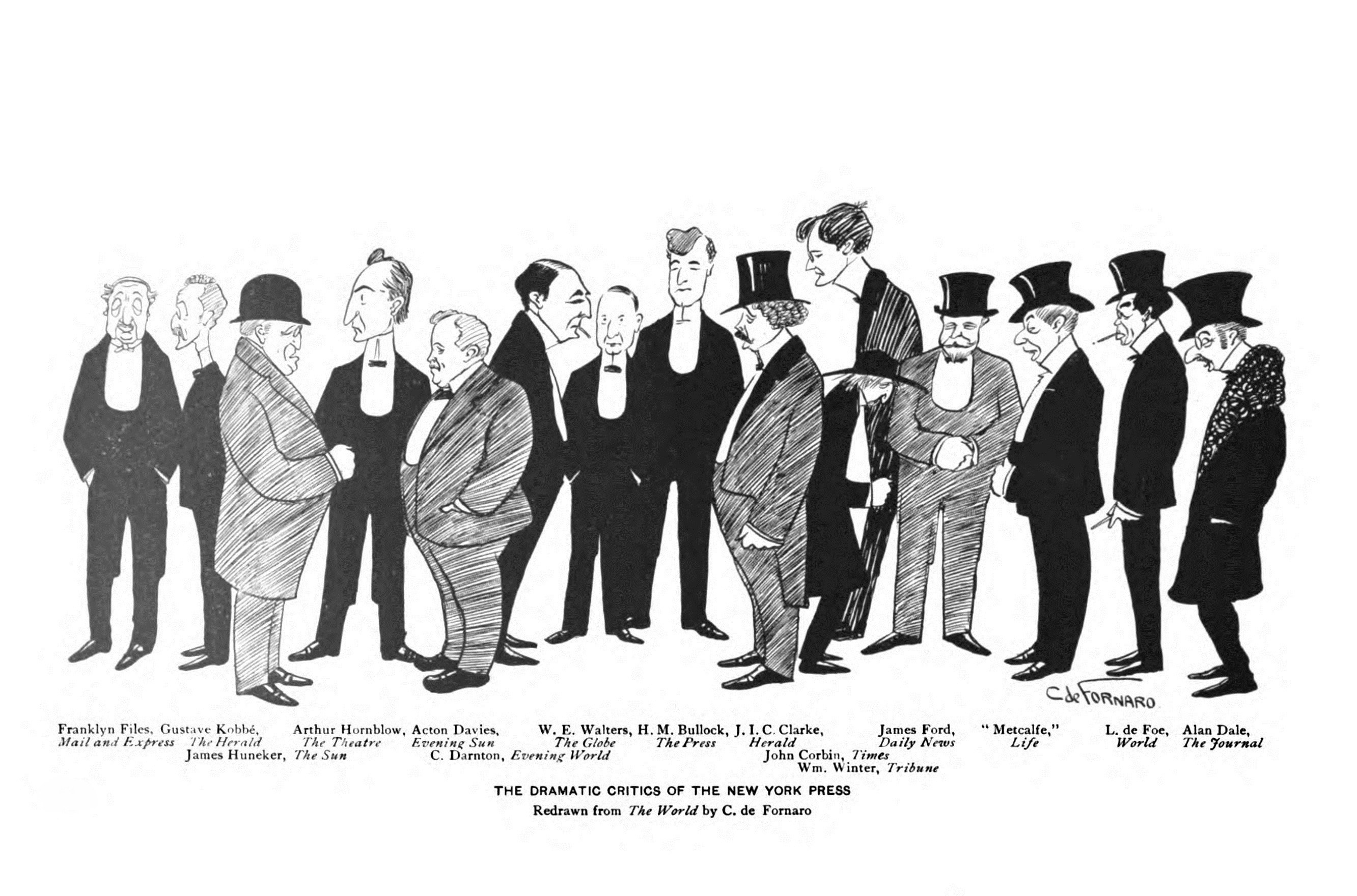 The Dramatic Critics of the New York Press From left: Frankyn Files, Mail and Express; Gustave Kobbé, The Herald; James Huneker, The Sun; Arthur Hornblow Sr., The Theatre; Acton Davies, Evening Sun; Charles Darnton, Evening World; H. M. Bullock, The Press; Joseph Ignatius Constantine Clarke, New York Herald; John Corbin, The New York Times; William Winter, Tribune; James L. Ford, Daily News; "Metcalfe", Life magazine; Louis Vincent de Foe, New York World; Alan Dale, New York Journal